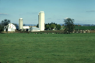 A farm in Franklin County, Pennsylvania